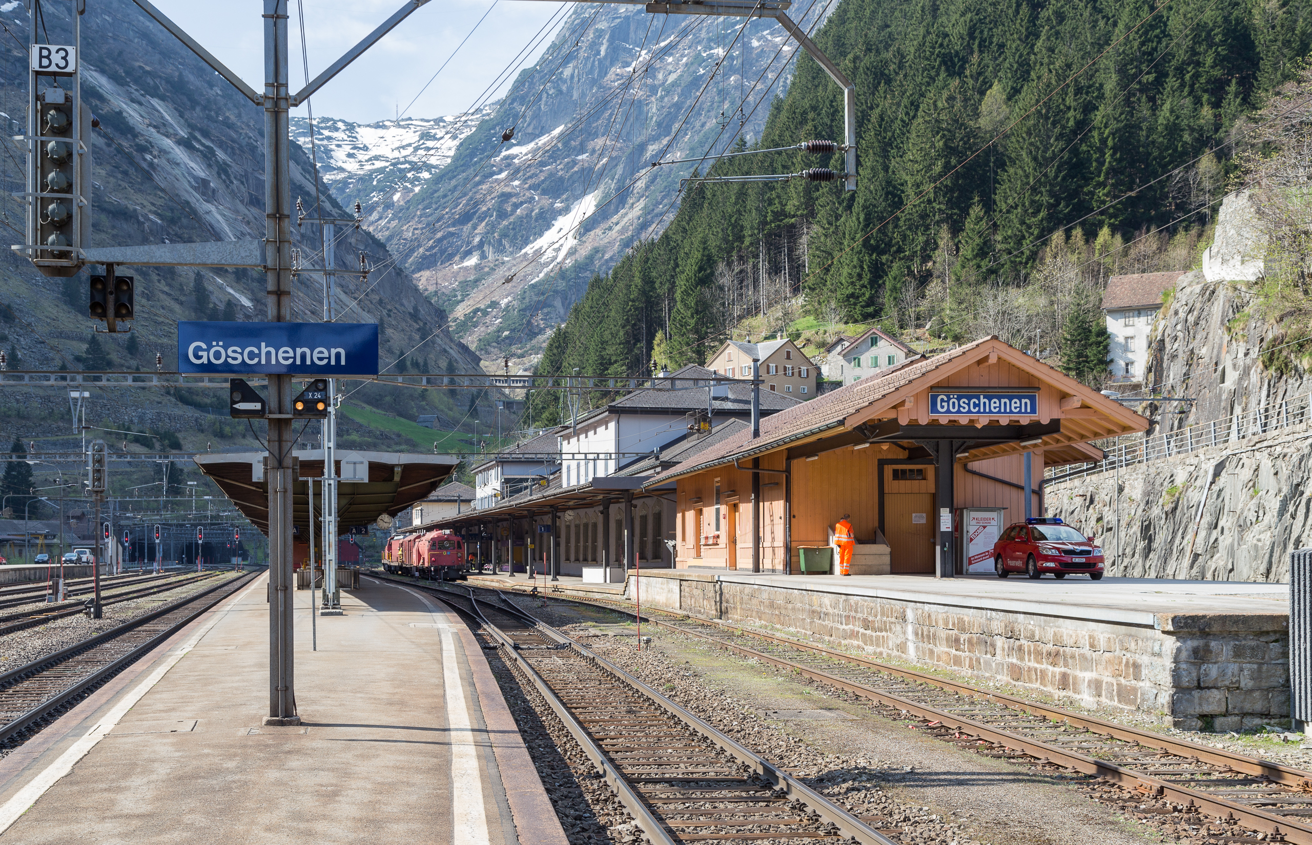 Göschenen Train Station